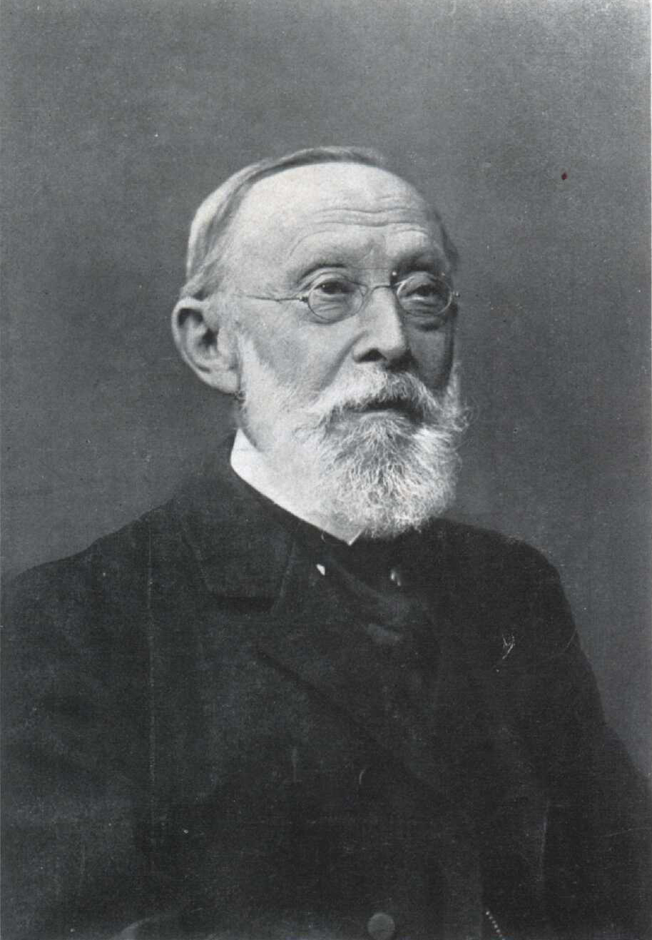 Rudolf Ludwig Karl Virchow